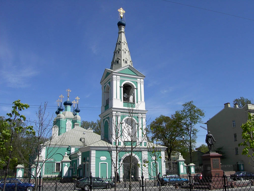 Sampsonievsky Cathedral in Saint-Petersburg, Russia.